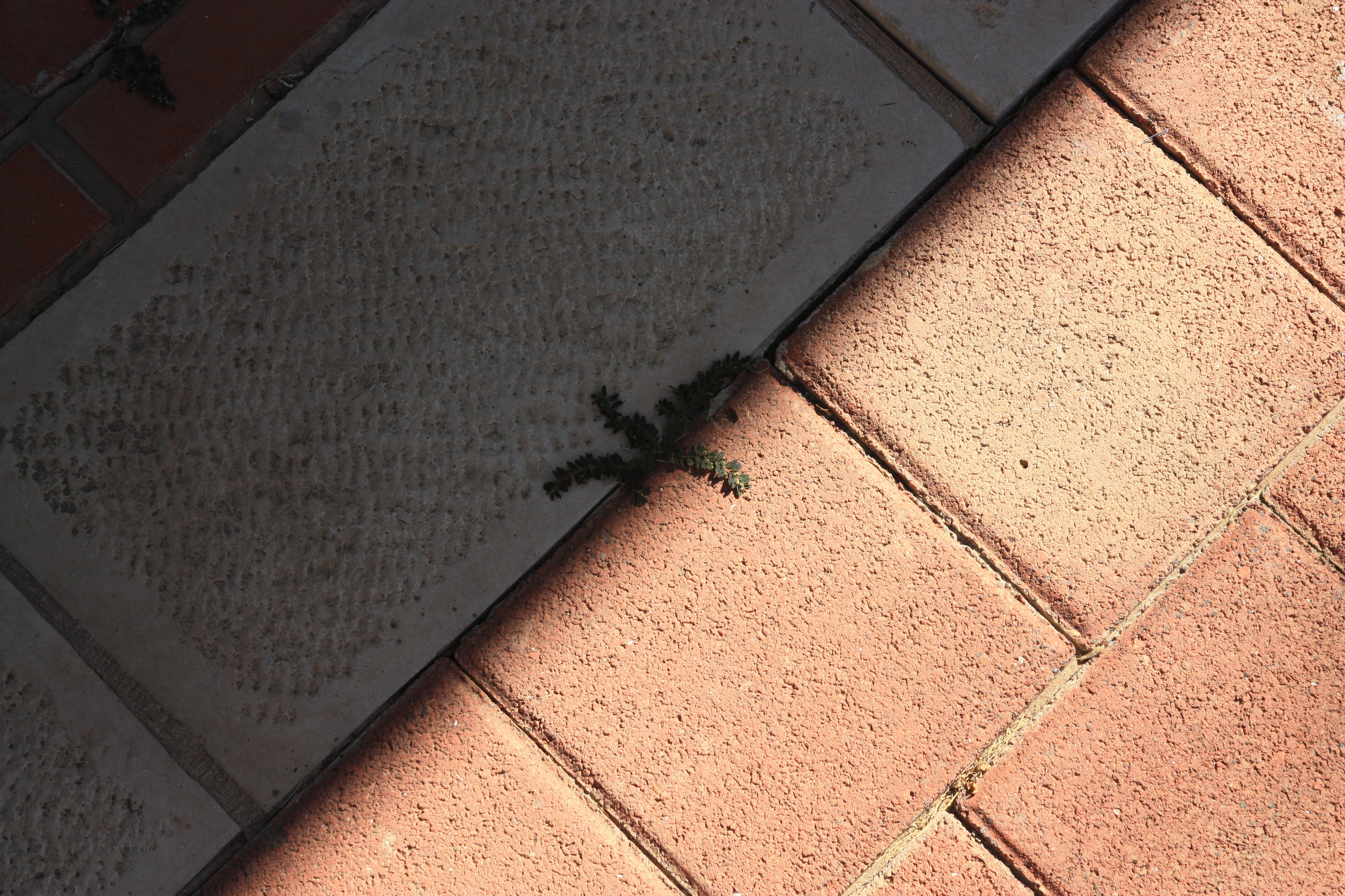 Flooring